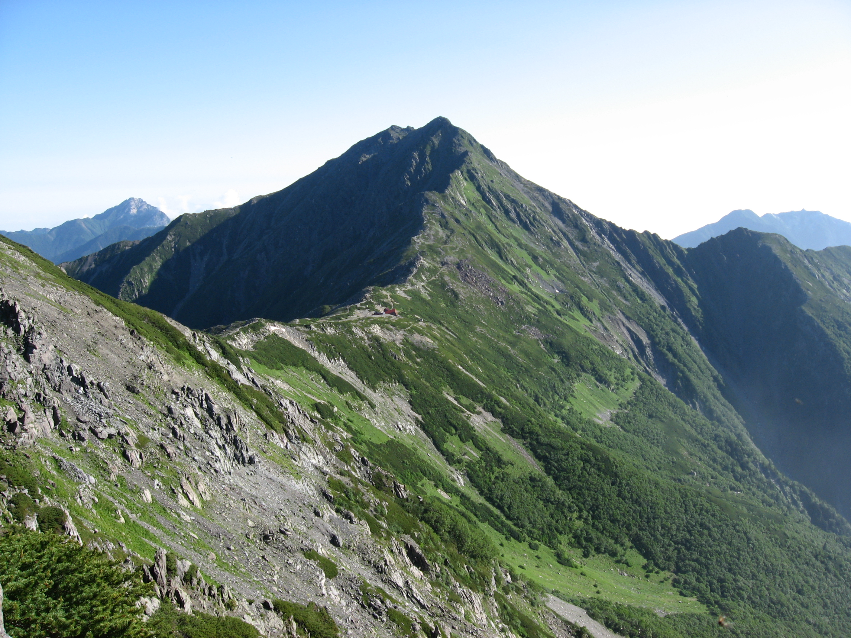 Mount Kita (Kita-dake) as seen from Mount Ai (Ai-no-dake) in the Akaishi Mountains, Japan